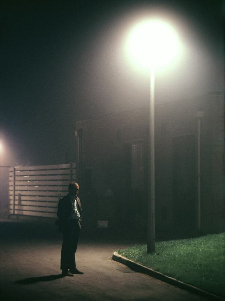 Fog at the campus by midnight